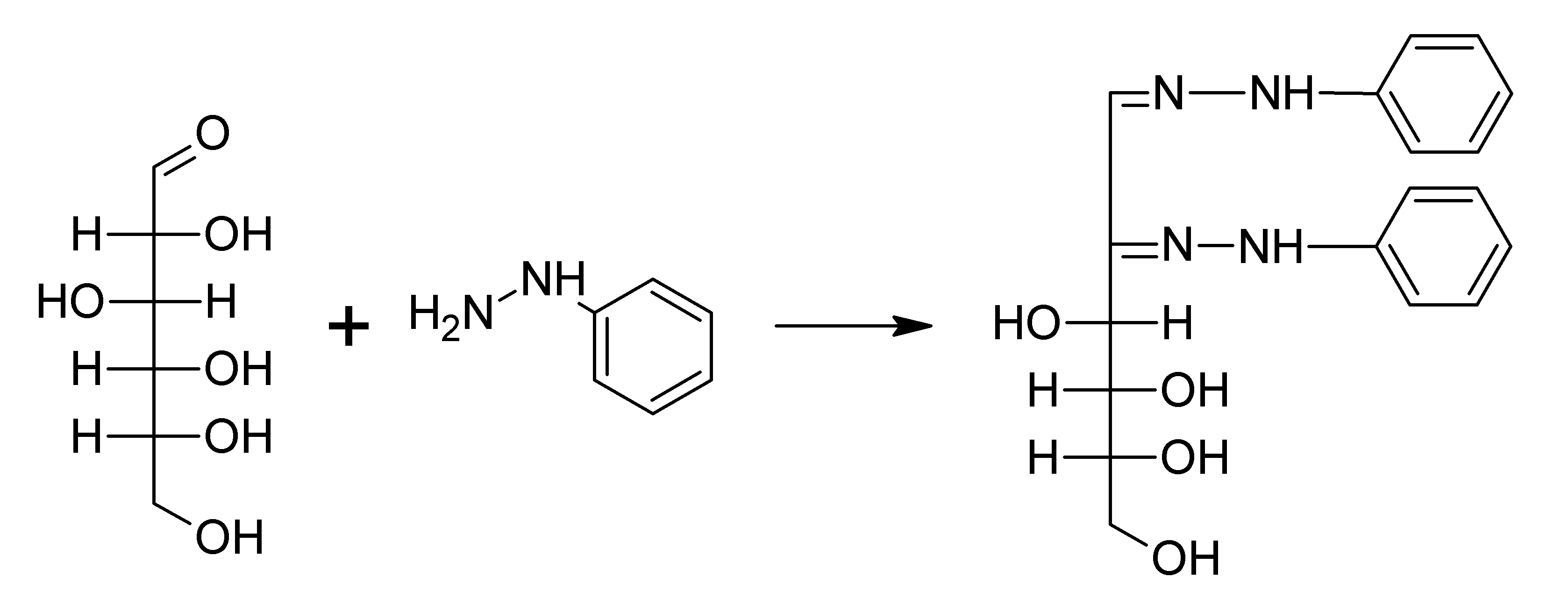 Comments High-resolution black/white .PNG made with ChemSketch and Photoshop — see WikiProject Chemistry - structure drawing for detailed instructions. Please drop me a note if you need the source file. Category:Chemical structures